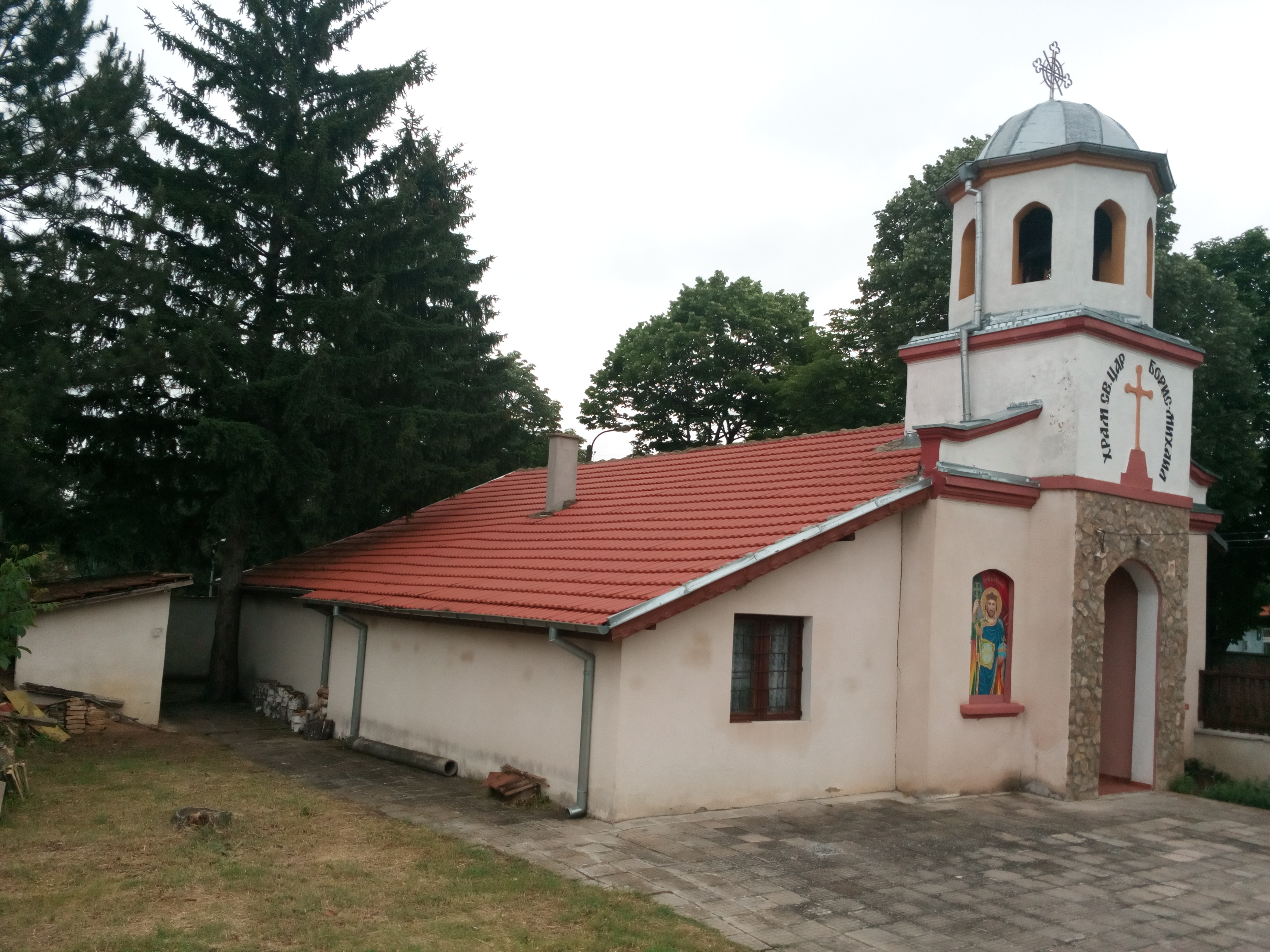 Church in Pliska Bulgaria